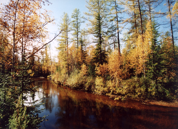 Vyngapur River in Yamalo-Nenets Autonomous Okrug (Russia).